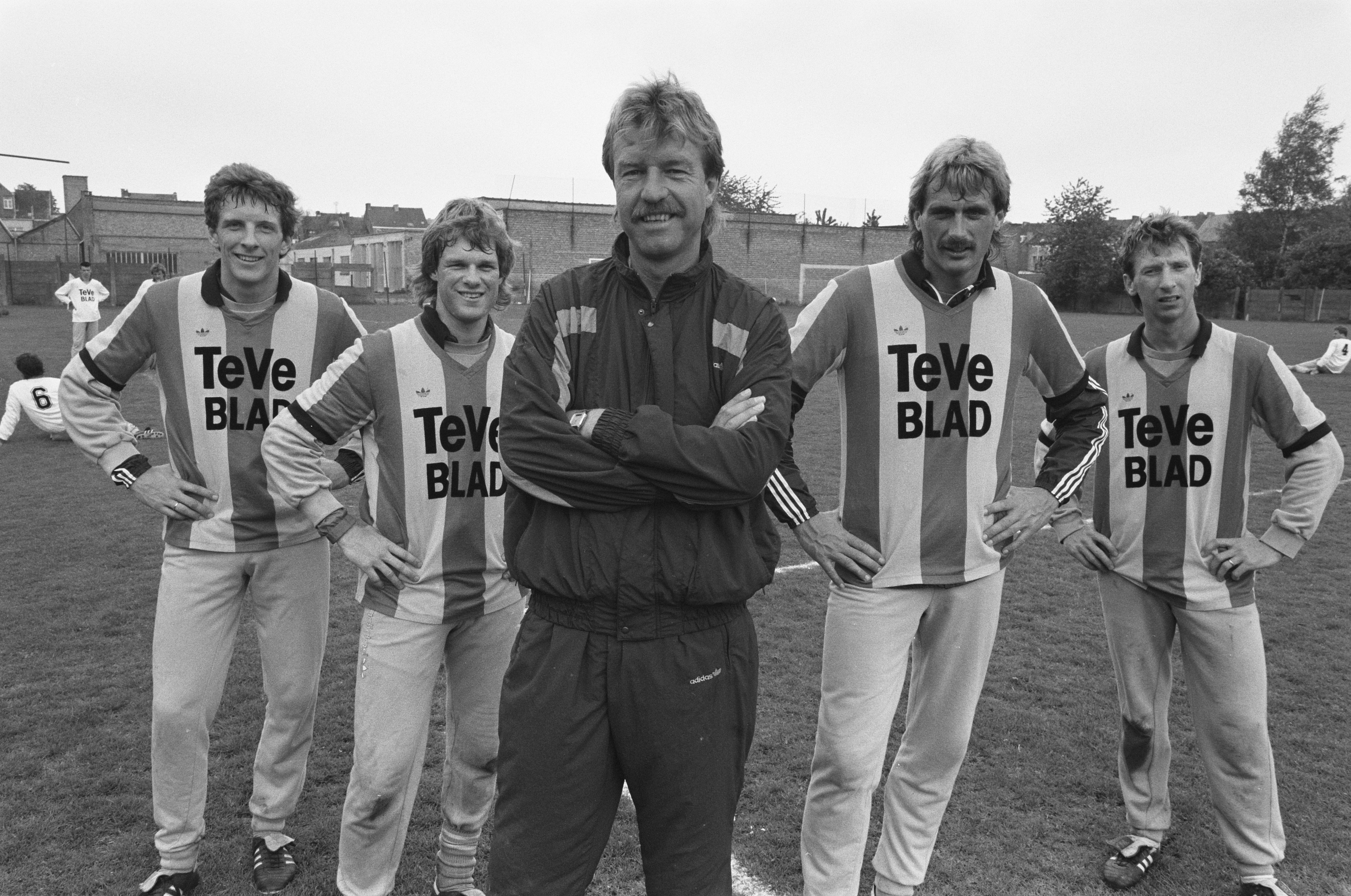 From left to right: Graeme Rutjes, Erwin Koeman, Aad de Mos (coach), Piet den Boer and Wim Hofkens of KV Mechelen.